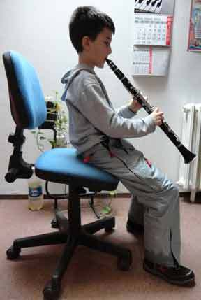 Correct positionSrpski (latinica): Ispravan stav tela